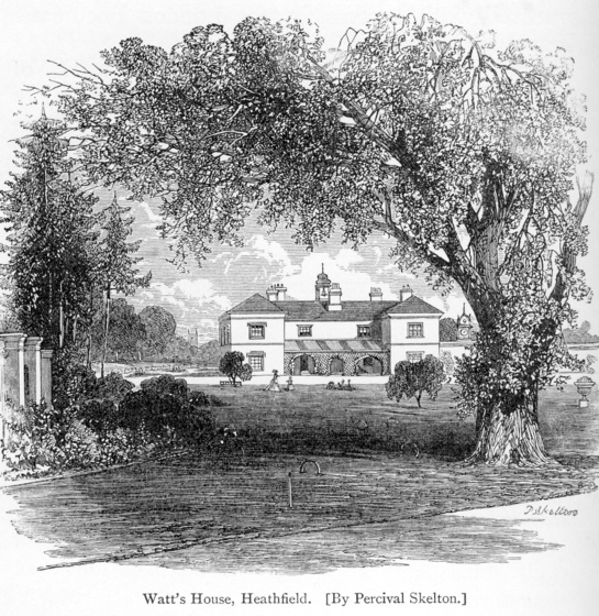 James Watt's house "Heathfield" in Handsworth, Birmingham: first illustrated in Smiles, Samuel (1865) "Chapter XXII" in Lives of Boulton and Watt, London: John Murray, pp. p. 456 Retrieved on 16 September 2010.